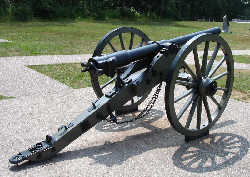 Photograph of Whitworth 12 pounder 2.75 inch breechloading field gun, at Gettysburg National Military Park.